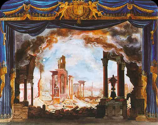 Set design for the opera Le siège de Corinthe, Paris, 1826. This comes from my collection and was scanned by me. Mrlopez2681 03:58, 2 January 2007 (UTC)